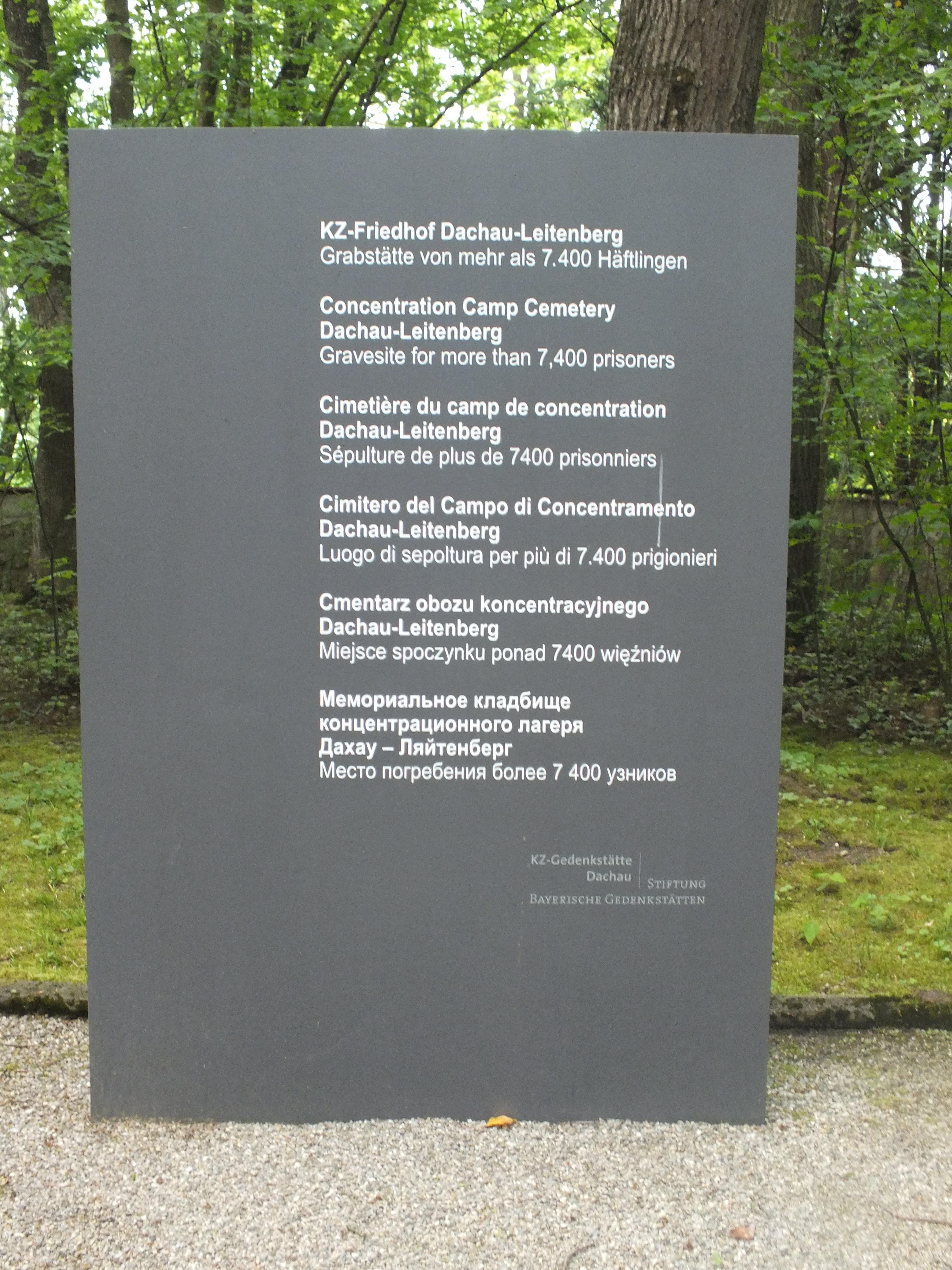 concentration camp cemetery Dachau-Leitenberg